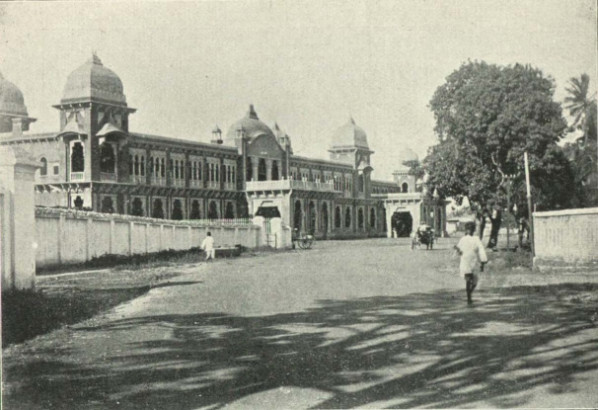 "The newly built terminus of the S. Indian Railway.'- Caption of photograph.